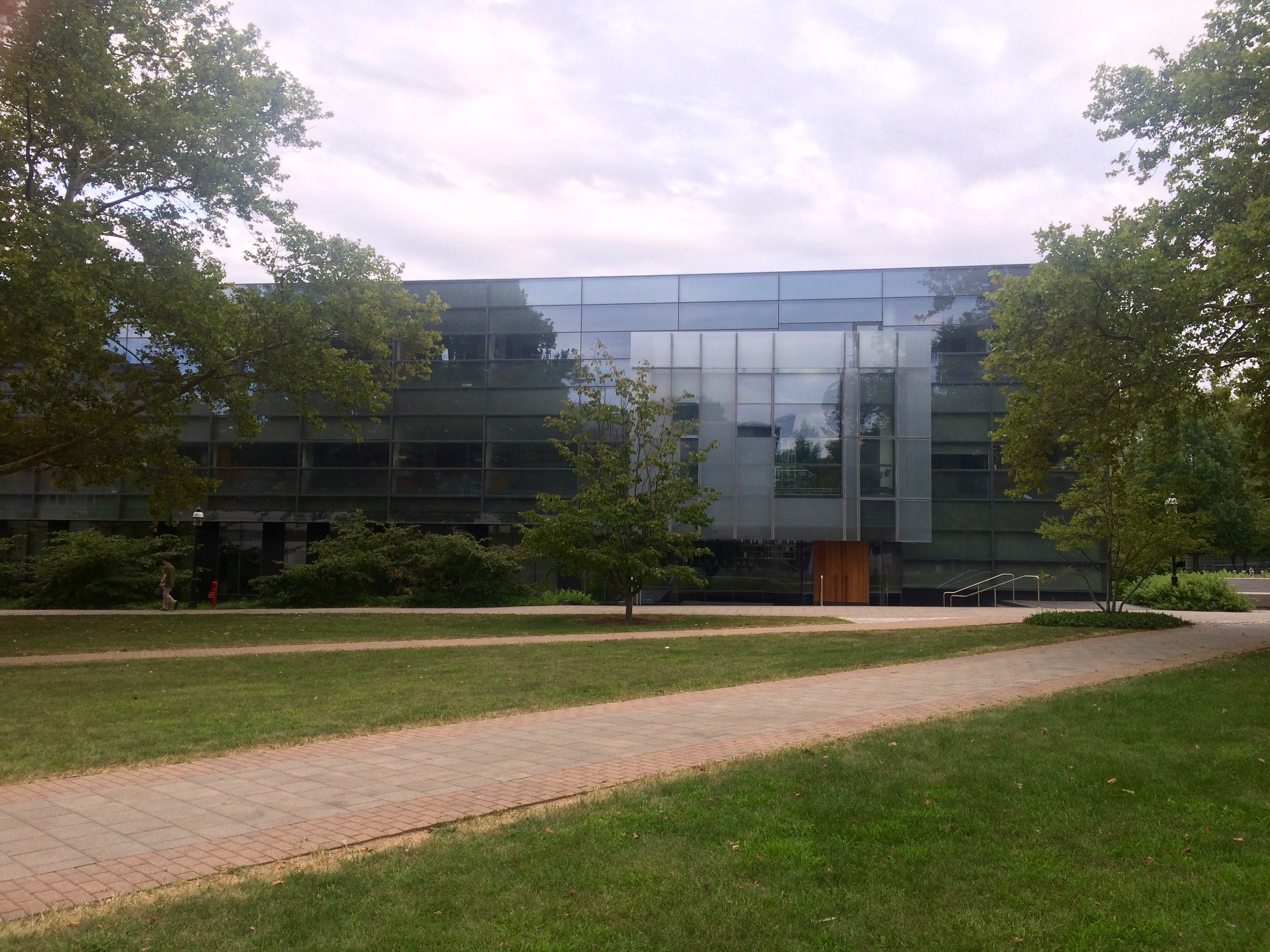 Sherrerd Hall at Princeton University